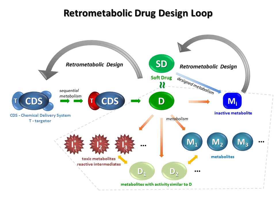 Illustration of the retrometabolic drug design loop that includes chemical delivery systems (CDS) design and soft drug (SD) design (for design of therapeutic drugs with decreased side effects).